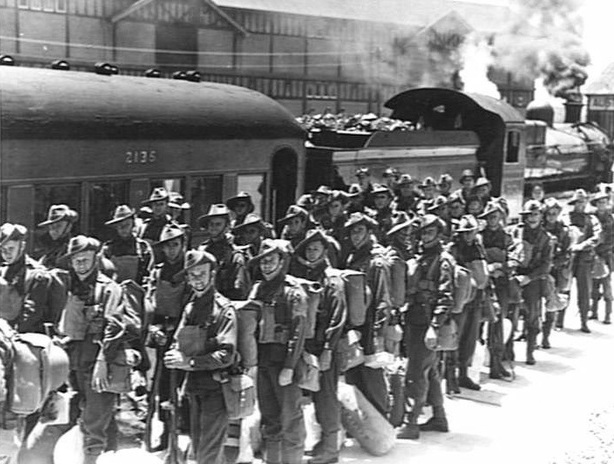 Signallers from the Australian 2/15th Infantry Battalion at Pyrmont, Sydney, just before embarkation for the Middle East, December 1940